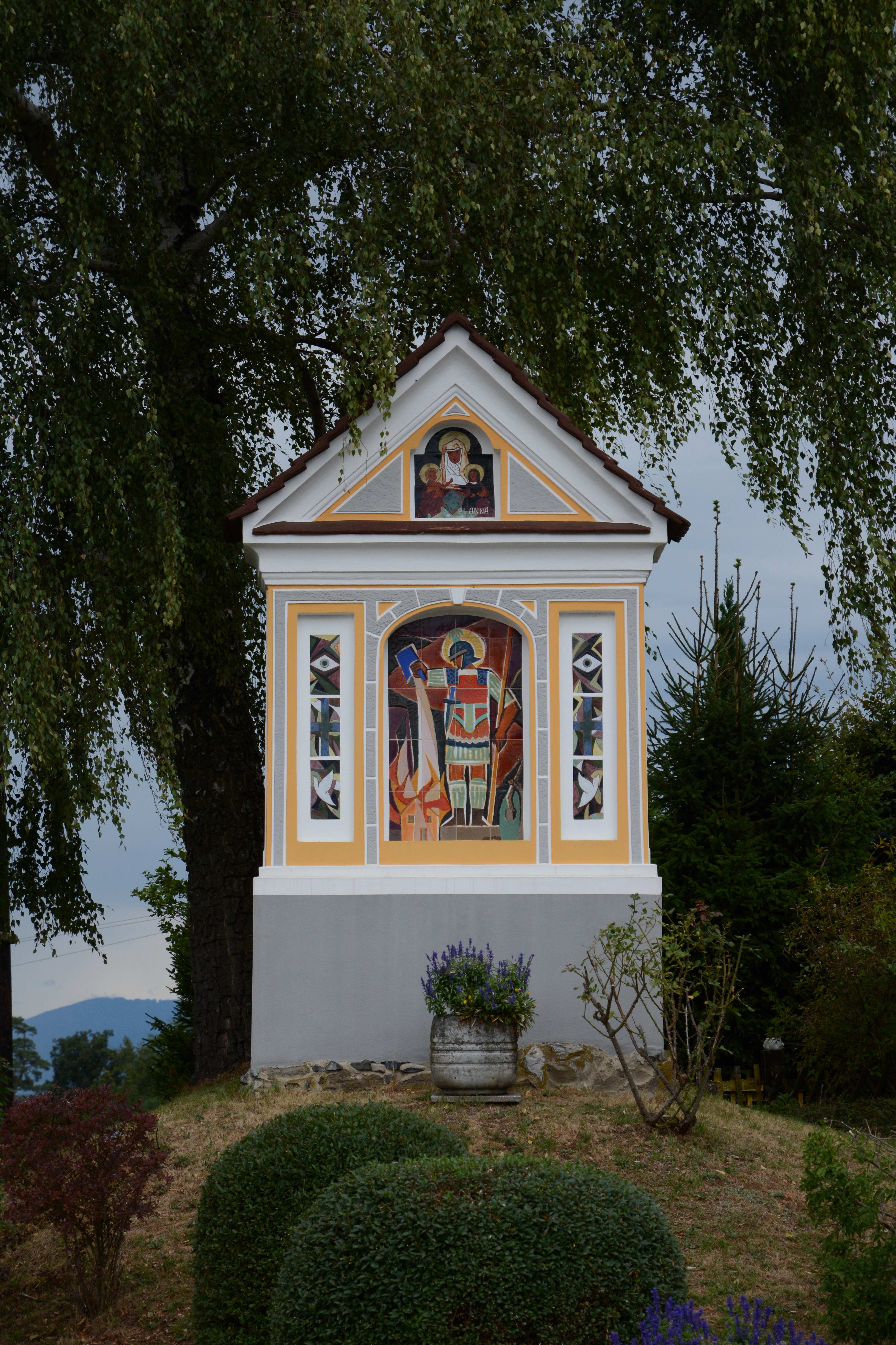 Bildstock Stadtbergen